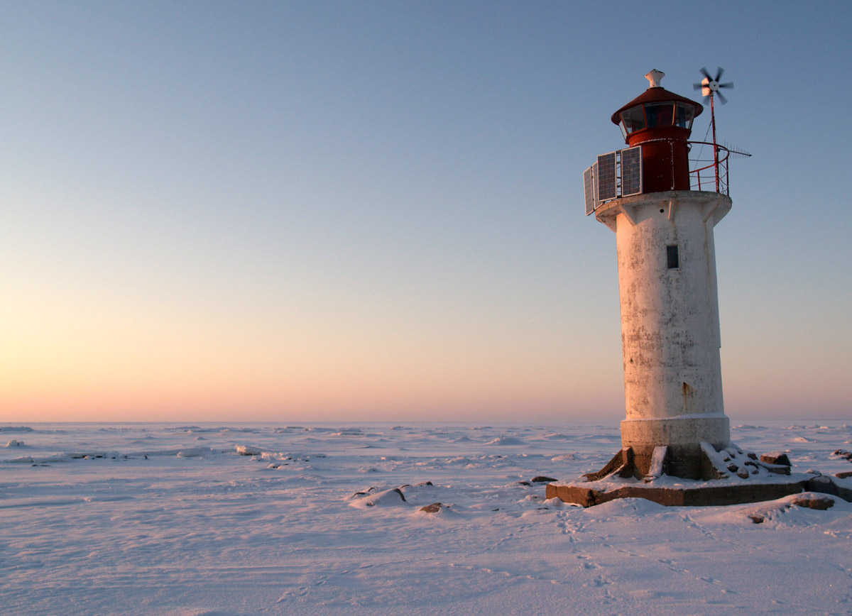 Manija lighthouse